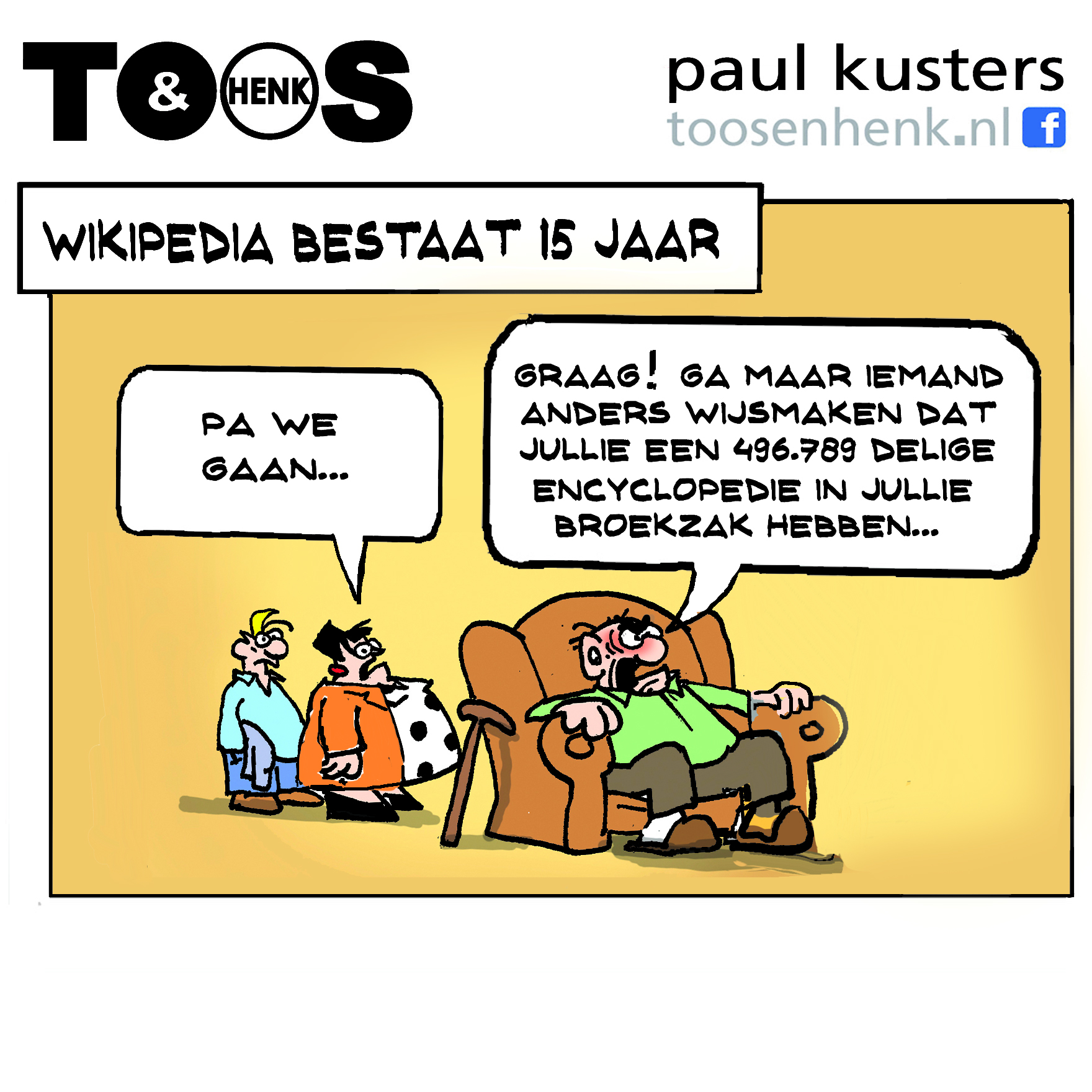 Toos & Henk, cartoon published daily in several Dutch newspapers, on January 20th 2016. Translation: Wikipedia celebrates its 15th anniversary / Dad we'll be off... / Fine! Try to fool someone else into believing you got a 496.789 volume encyclopedia in your pocket...